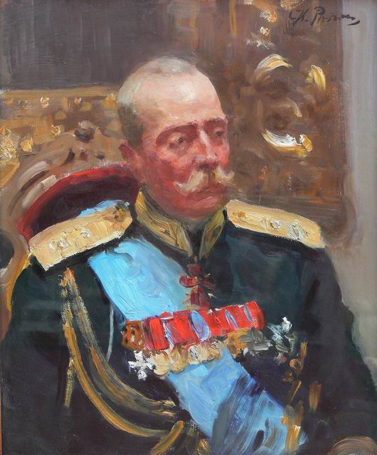 Portrait of member of State Council and general of infantry Prince Alexander Petrovich of Oldenburg. Study for the picture Formal Session of the State Council. Oil on canvas. The State Russian Museum, St. Petersburg.